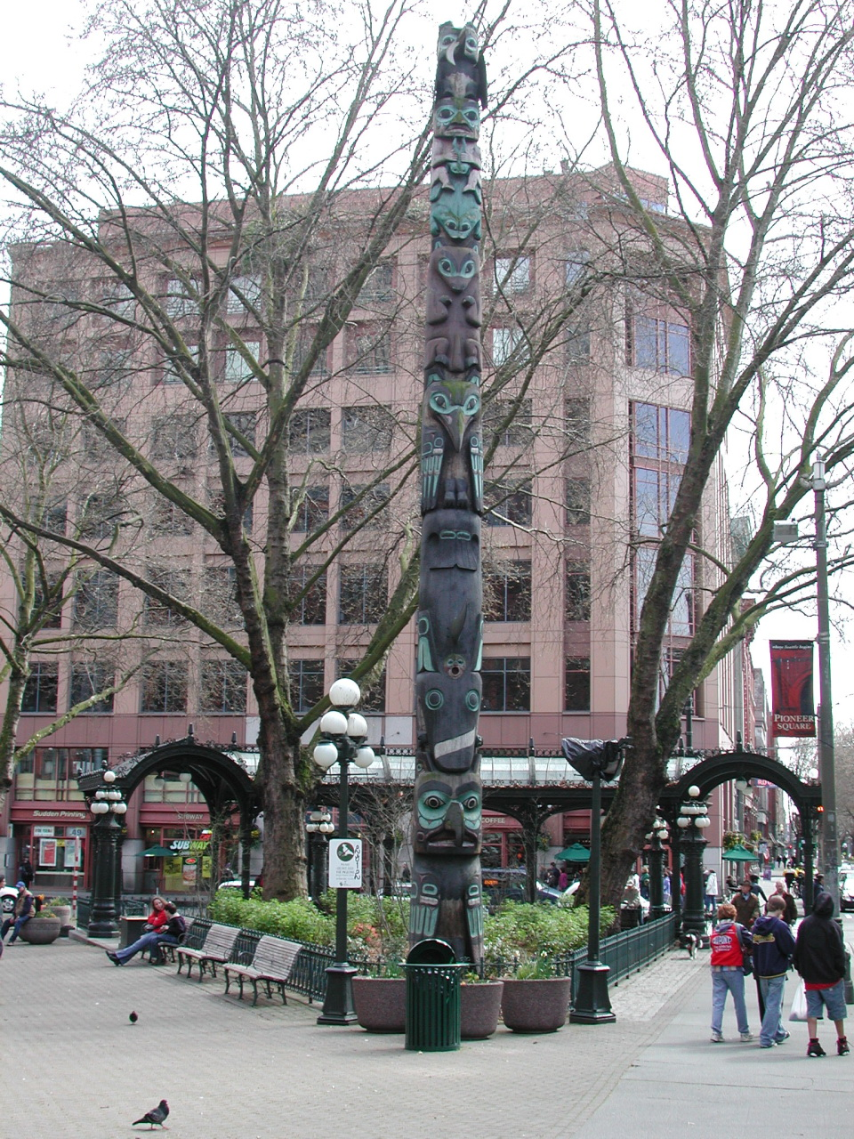 The (1980s) Olympic Block is seen here beyond the Tlingit totem pole and the Iron Pergola. The current totem pole in this location is a 1930s replica of the original Pioneer Square totem pole, carved in 1790, stolen from a Tlingit village on Tongass Island, Alaska, and erected in Seattle in 1899, which was damaged by arson. It is carved by descendants of the original carvers. The original pergola was designed by Julian F. Everett and built in 1909. The original 1909 Pergola was accidentally knocked over by a truck in January 2001; the restored and reinforced pergola was inaugurated in August 2002.